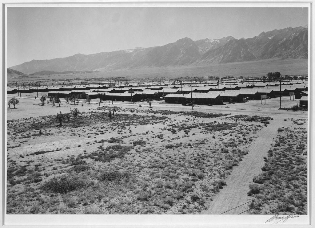 Manzanar War Relocation Center, mid-1940s, Picture taken from guard tower, summer heat, view SW